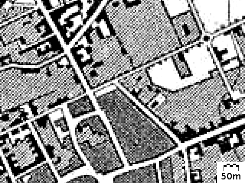 Resolution of a printed 1:25'000 topographic map: 12m in nature corresponds to 0.5mm on the map. Compare eg width of roads with bottom right scale.